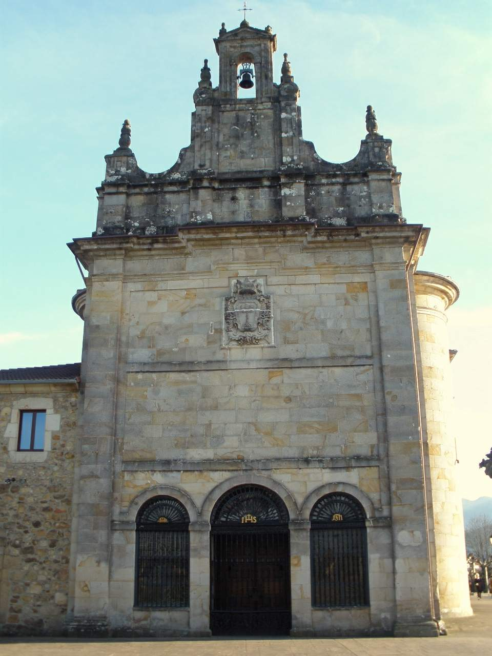 Iglesia de San Juan Bautista de Larrea (Convento del Carmen), en Amorebieta